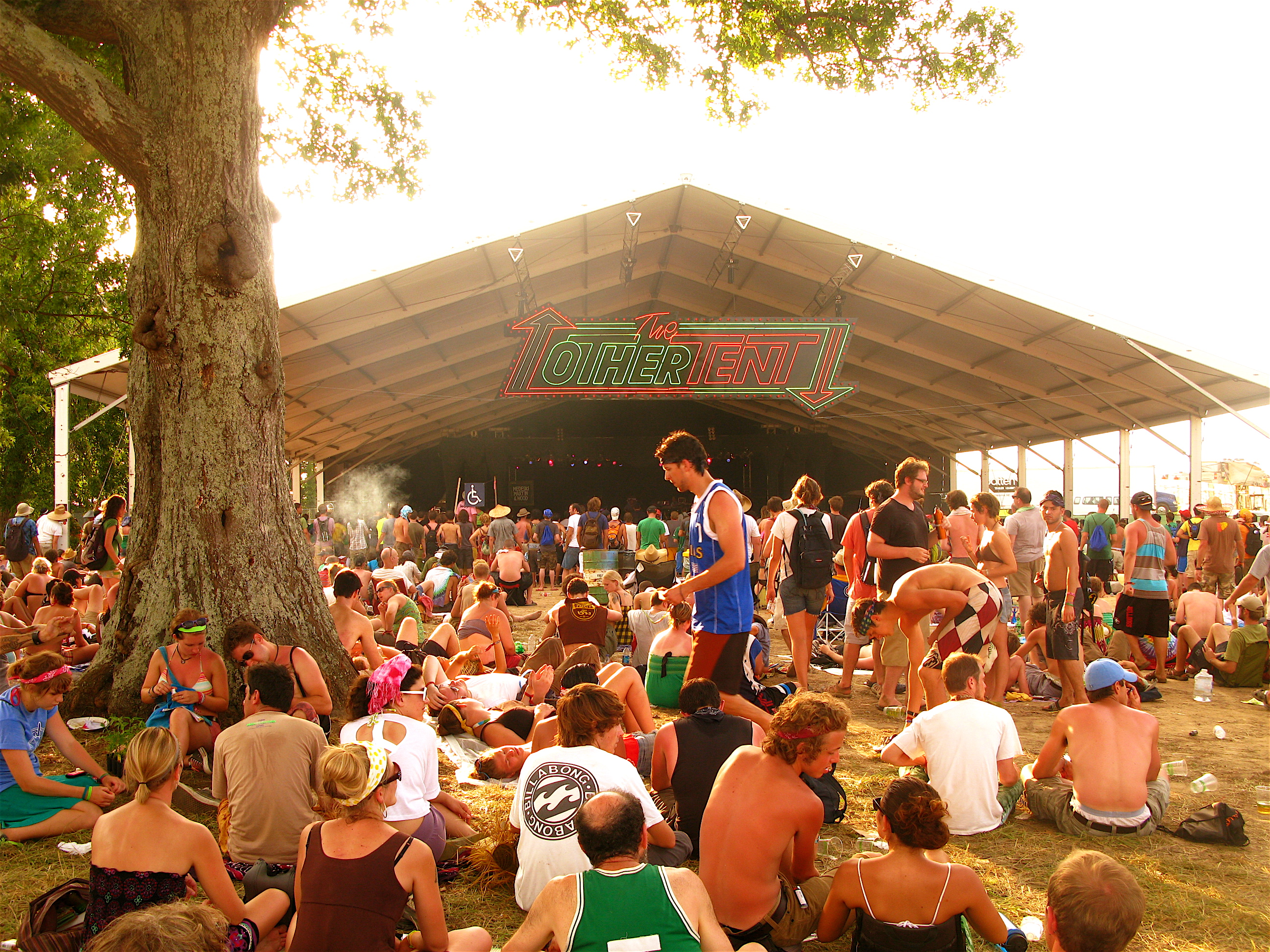 Bonnaroo Music and Arts Festival 2010 Manchester, TN By JASON ANFINSEN